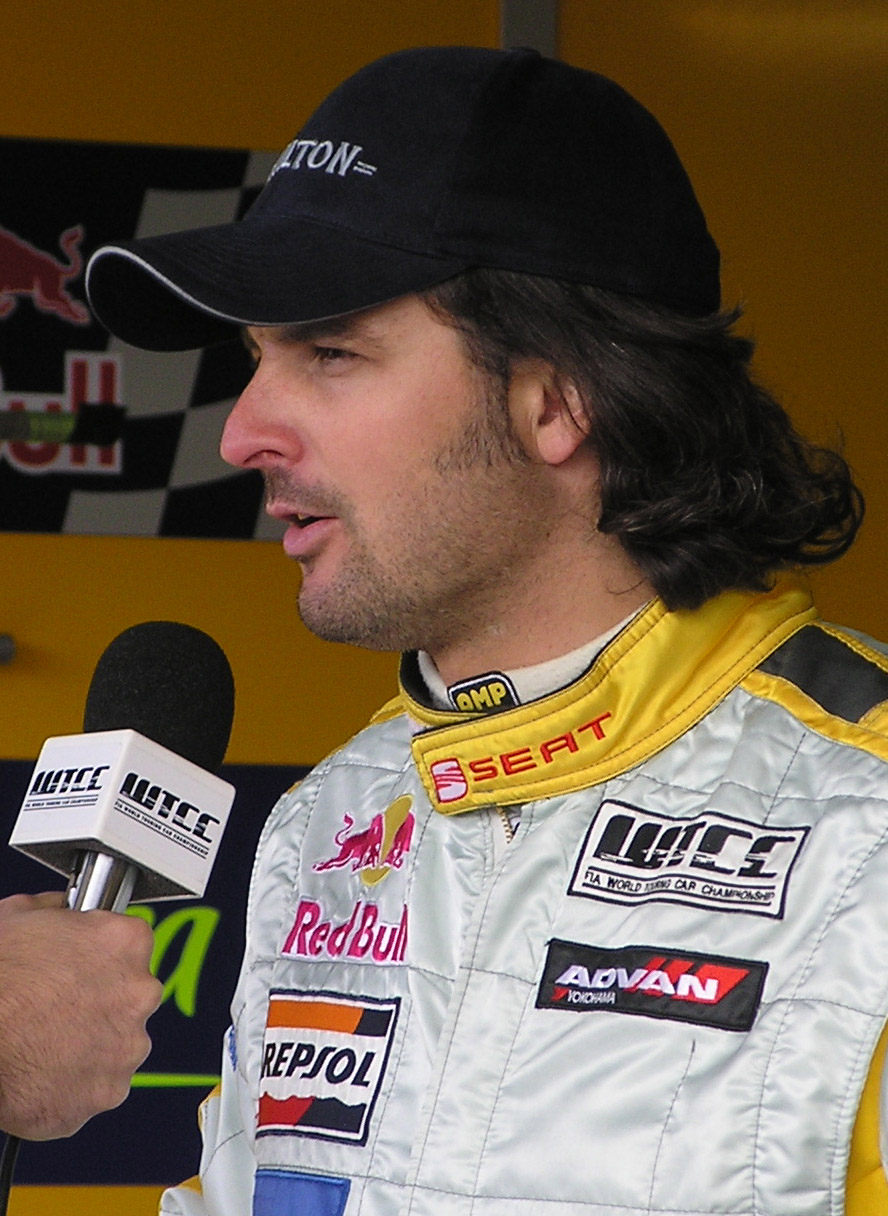 World Touring Car Championship 2006 Curitiba: Yvan Muller (SEAT Sport France)